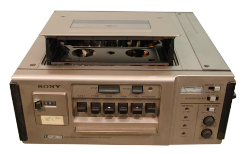 SONY U-matic machine